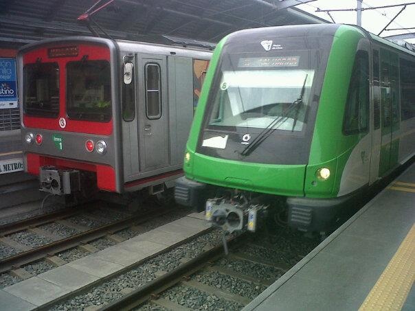 Material ROdante Metro de Lima L1